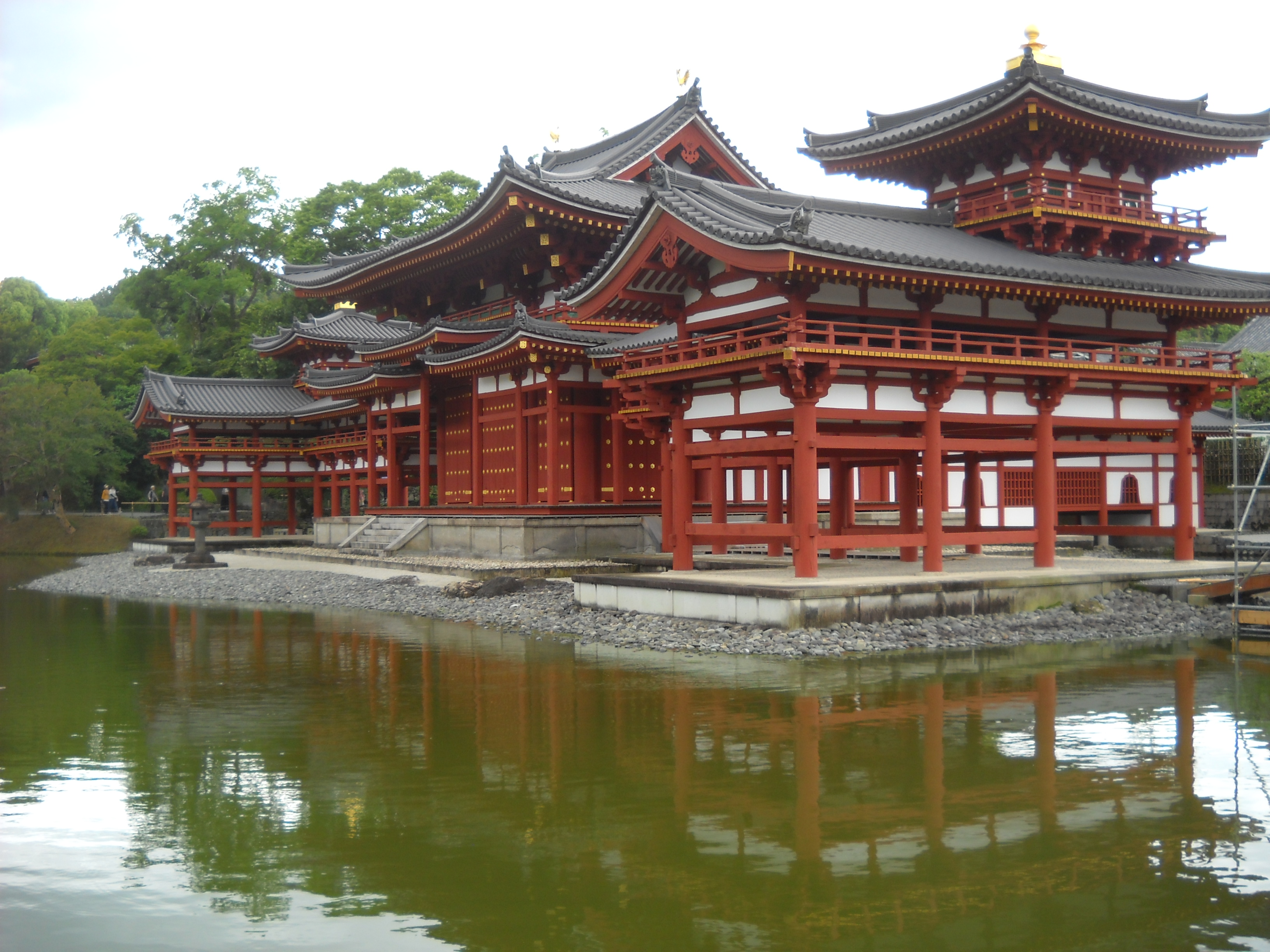 Byōdō-in view from left side